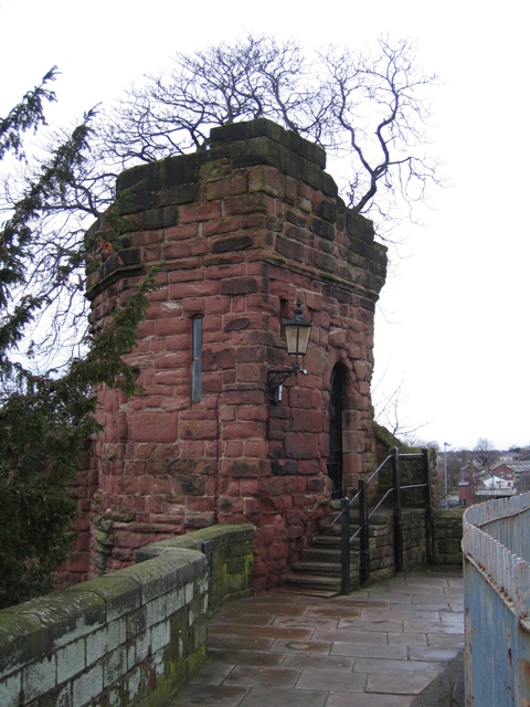 Bonewaldesthorne's Tower Bonewaldesthorne's Tower stands at the north west corner of the city walls. It provides access to the Water Tower, via a spur wall, but is only opened about three times a year. The top room of the tower has a camera obscura.